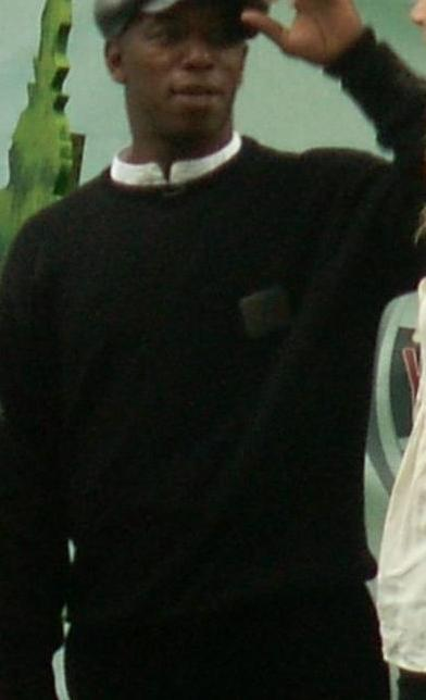 Ian Wright